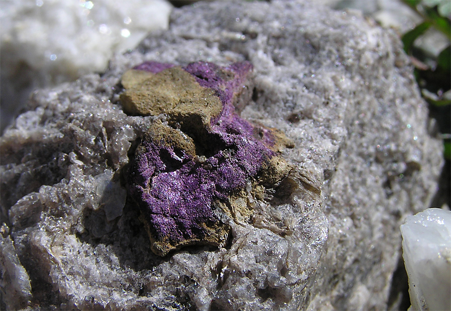 Purpurite Locality: Brown Thurston prospect, Rumford, Oxford County, Maine, USA Original description: A 2.5 cm Purpurite mass on quartz from the summit of Black Mountain in Rumford, Maine collected by Douglas Watts in 1993 from an unprospected, highly weathered simple pegmatite (white beryl/quartz/muscovite/purpurite). The specimen was lightly treated with oxalic acid to brighten the purpurite. This area is nearby and most likely related to the pegmatite at the Brown/Thurston prospect, another purpurite locality on Black Mountain. King and Foord (1994) reported Black Mountain 'purpurite' is nearly 50/50 heterosite/purpurite.